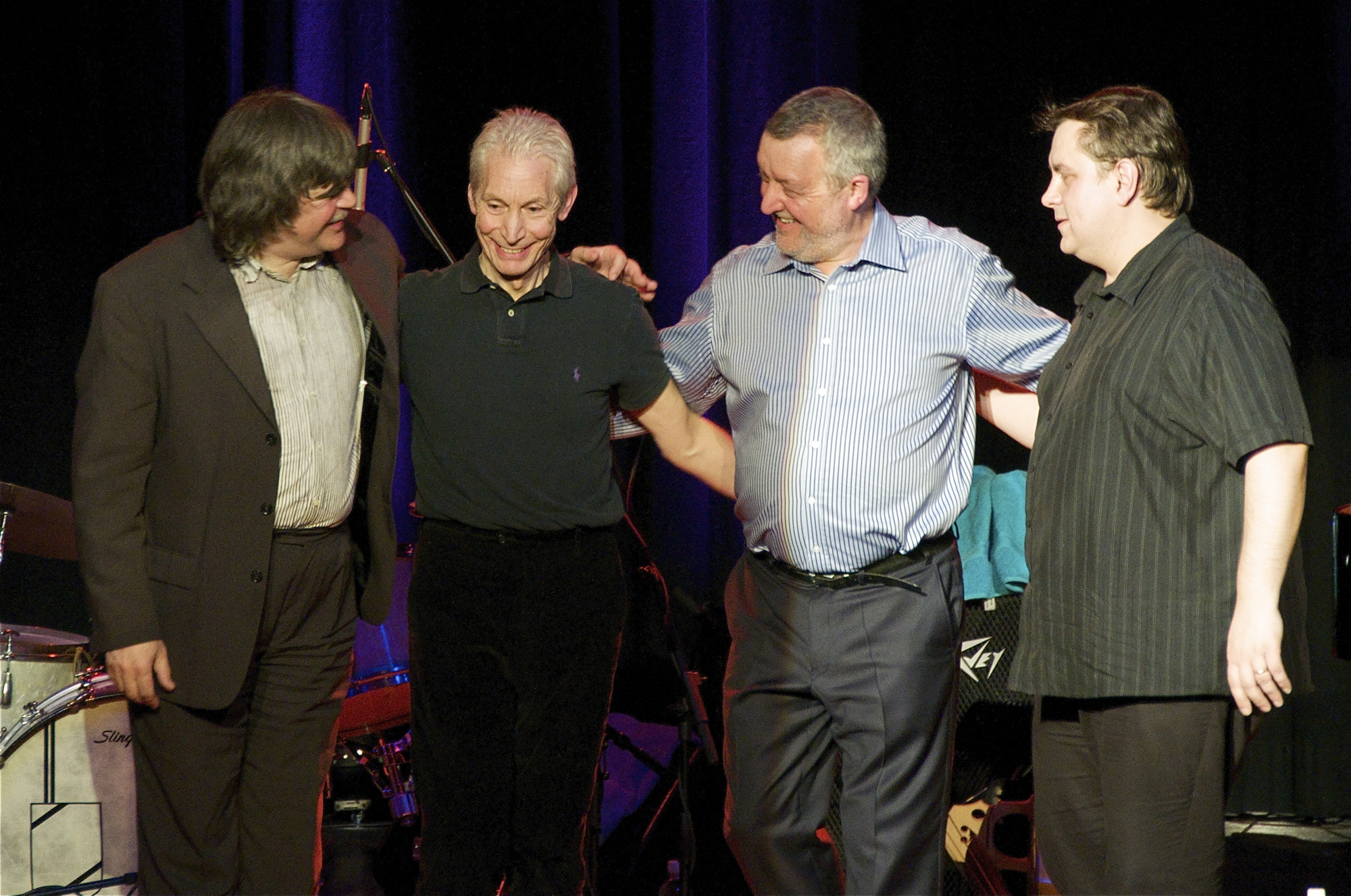 The band The ABC&D of Boogie Woogie at a concert in the Casino in Herisau, Switzerland on January 13th, 2010. From left to right: Axel Zwingenberger (piano), Charlie Watts (drums, member of The Rolling Stones), Dave Green (contrabass) and Ben Waters (piano).